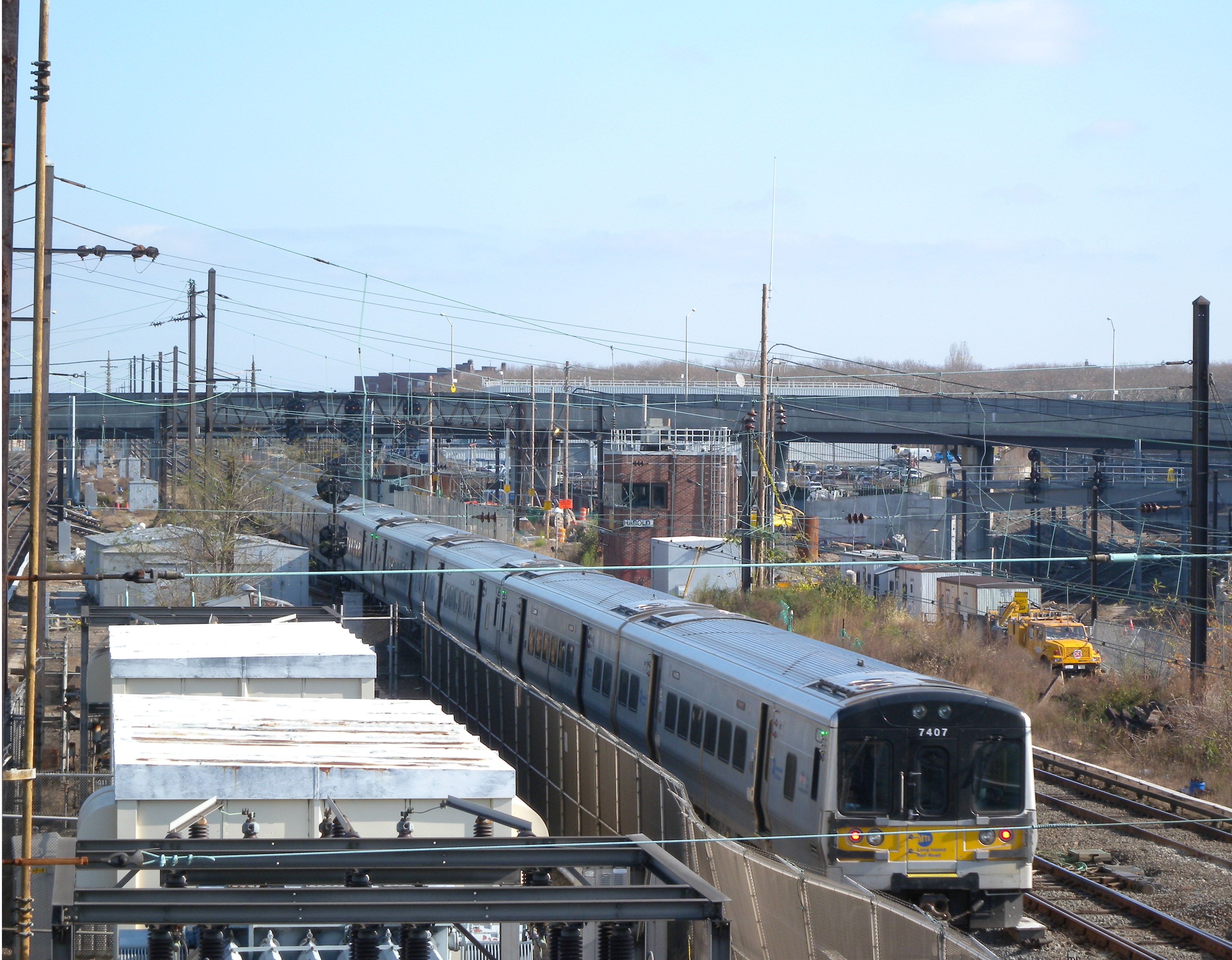 Looking east, full zoom, from Honeywell Avenue viaduct at Harold Tower on a sunny midday.